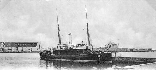 A postcard of the first Swedish gunboat that was named HMS Svensksund, circa 1900.